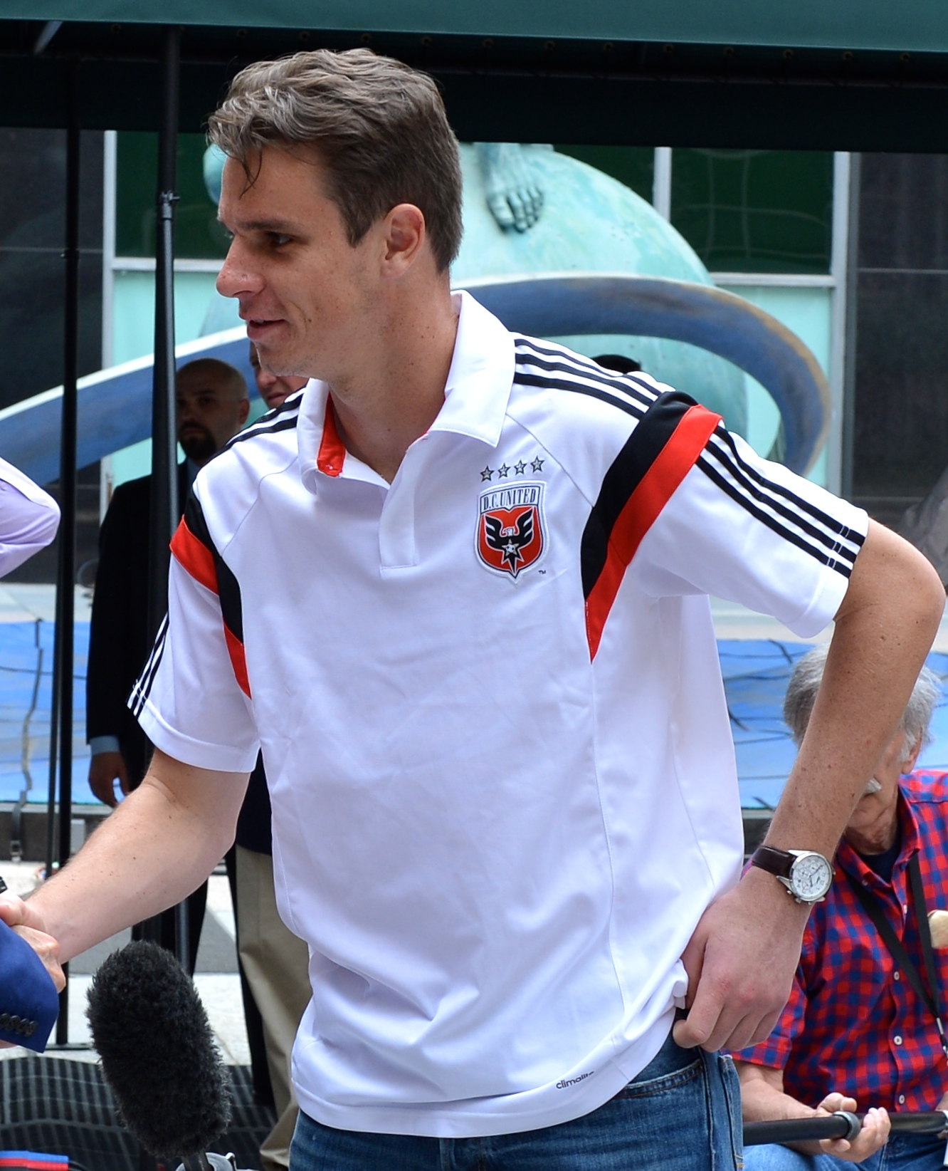 U.S. Secretary of State John Kerry chats with DC United player Conor Shanosky during a sports diplomacy event at the U.S. Department of State in Washington, D.C., on April 14, 2014. [State Department photo/ Public Domain]